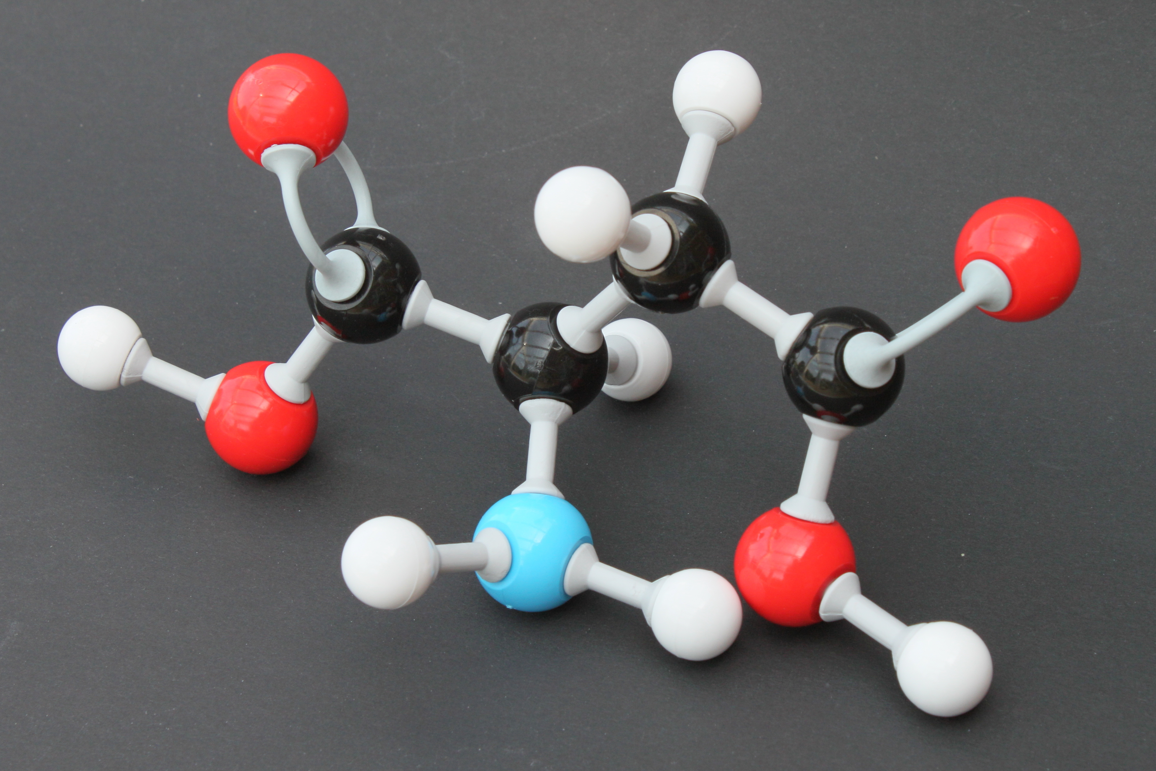 Chemical structures constucted with Prentice Hall Molecular Model Set for General Organic Chemistry